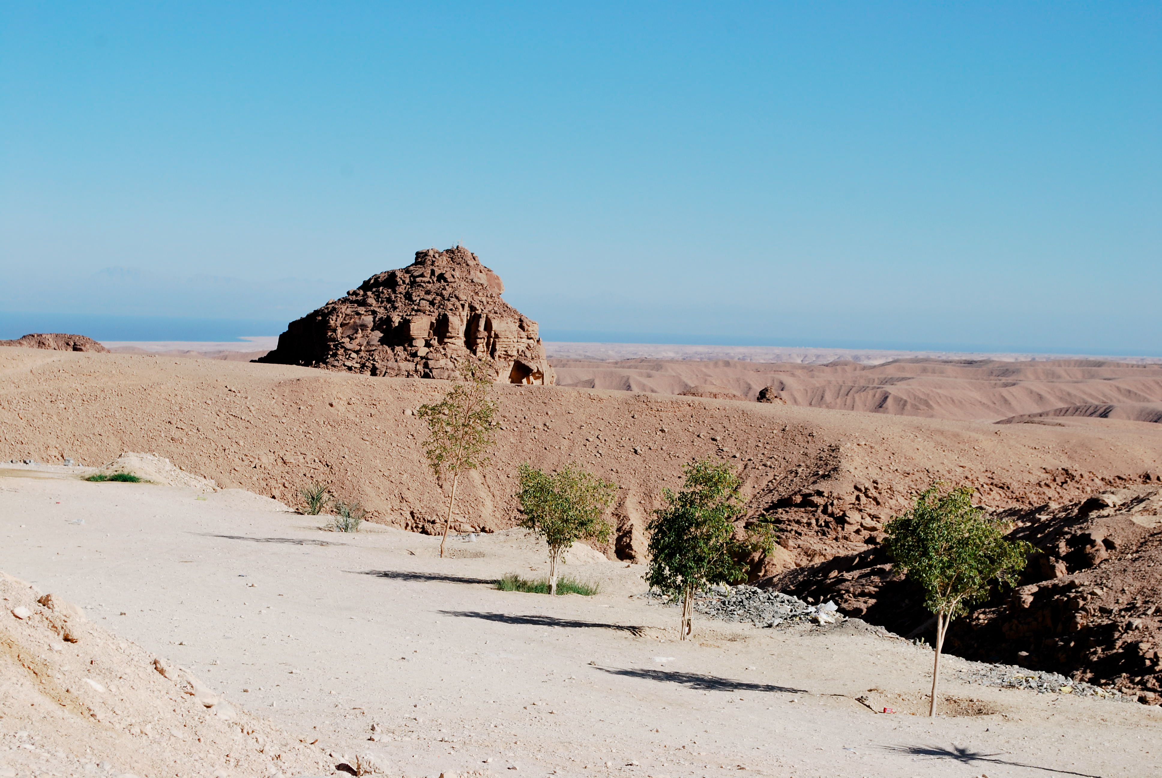 I was surprised that I can see the Suez Gulf and Sinai although I visited the Monastery before many time :D. But, I took many shots and this is one :) Location: Saint Paul Monastery, Red Sea Governorate, approximately 250km Southeast of Cairo, Egypt View large on black to see more details